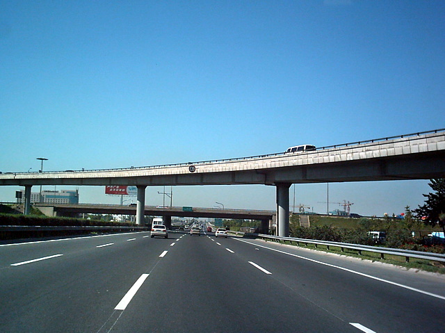 Shibalidian (Beijing).